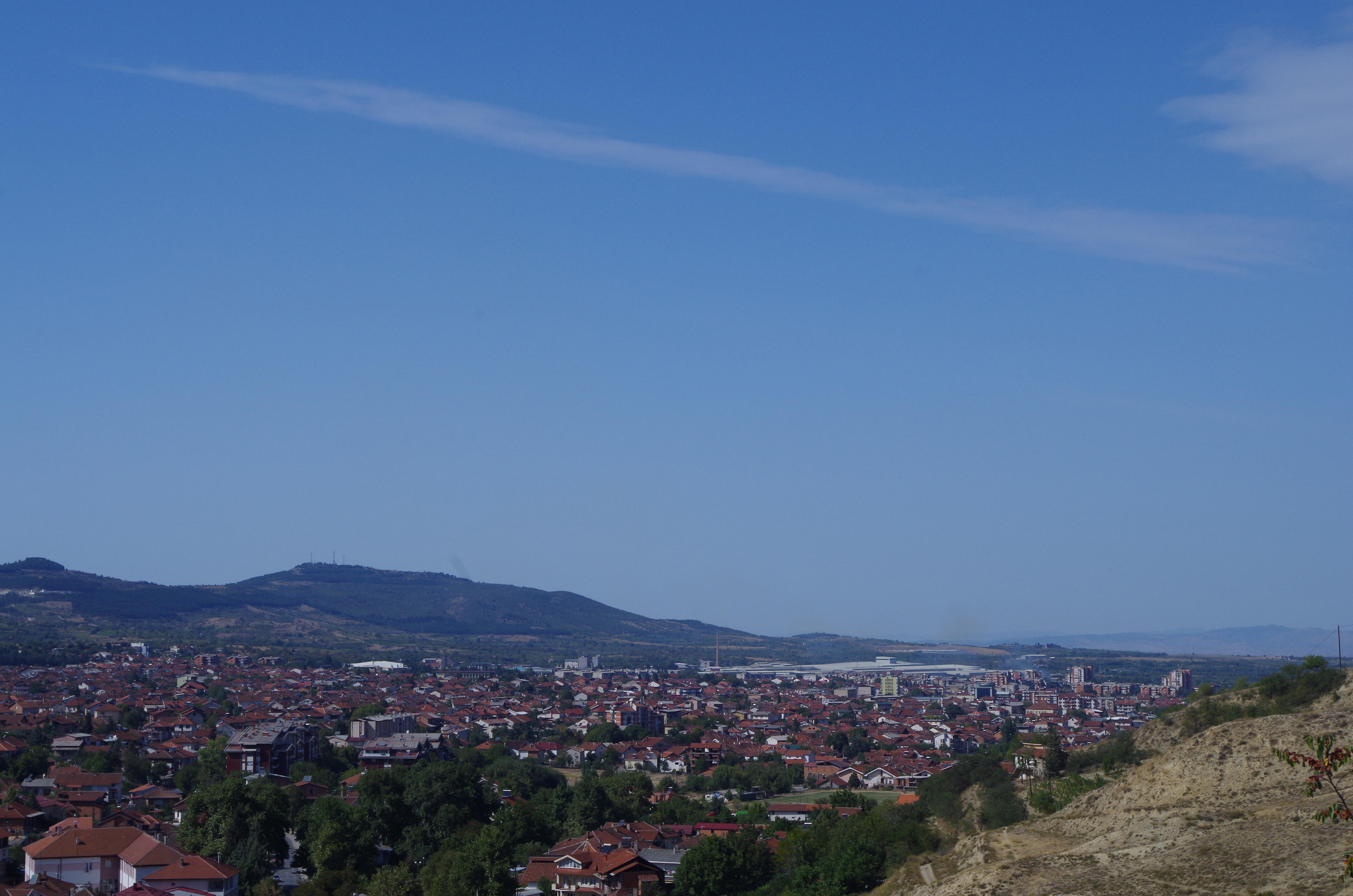 Panoramic view of Kavadarci